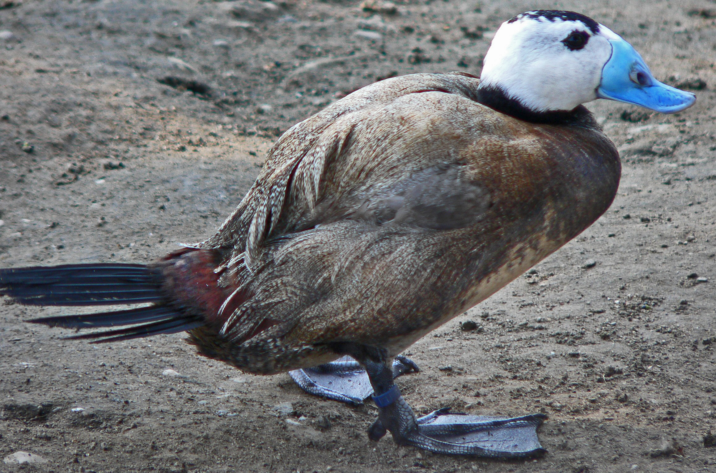 White-headed duck (Oxyura leucocephala)